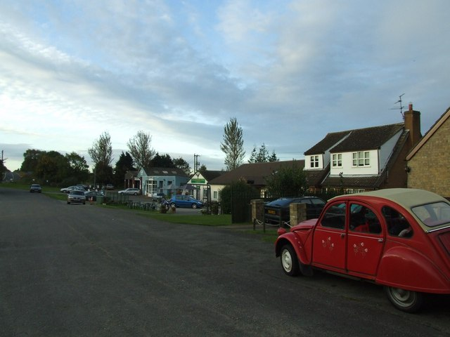 Byard's Leap Cafe and Byard's Leap Lodge Excellent tea and bacon butties at the cafe